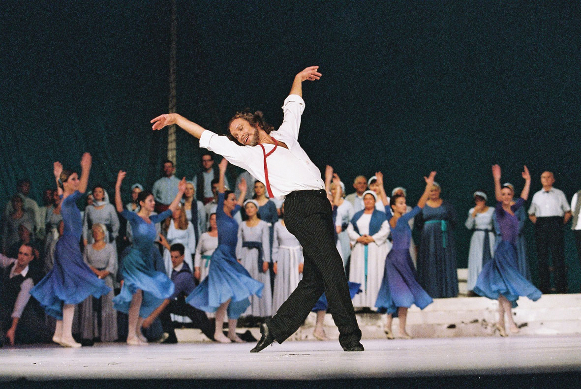 Konstantin Kostjukov as Aleksis Zorbas in the ballet 'Grk Zorba' by M. Teodorakis; choreography and directing: Krunislav Simić, Serbian National Theater, Novi Sad, 2006. Photographer: Miomir Polzović Srpski (latinica): Konstantin Kostjukov kao Aleksis Zorbas u baletu 'Grk Zorba' M. Teodorakisa; koreografija i režija Krunislav Simić, Srpsko narodno pozorište, Novi Sad, 2006. Fotograf Miomir Polzović Српски (ћирилица): Константин Костјуков као Алексис Зорбас у балету 'Грк Зорба' М. Теодоракиса; кореографија и режија Крунислав Симић, Српско народно позориште, Нови Сад, 2006. Фотограф Миомир Ползовић